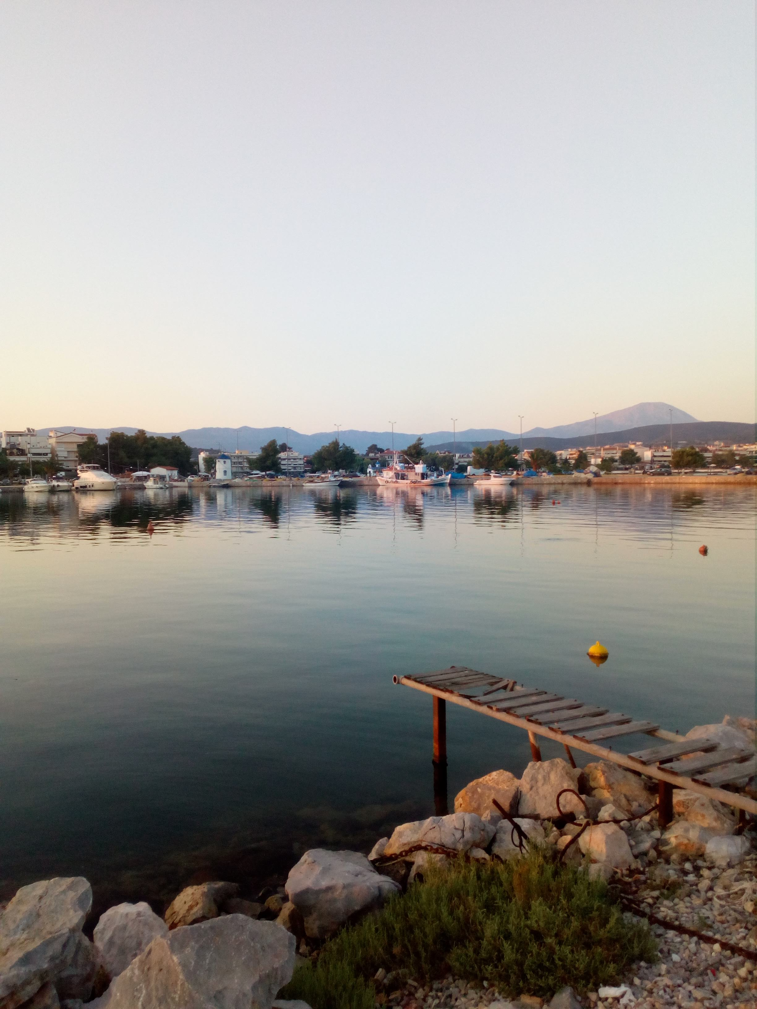 Η Νέα Αρτάκη είναι μια πόλη της Εύβοιας.